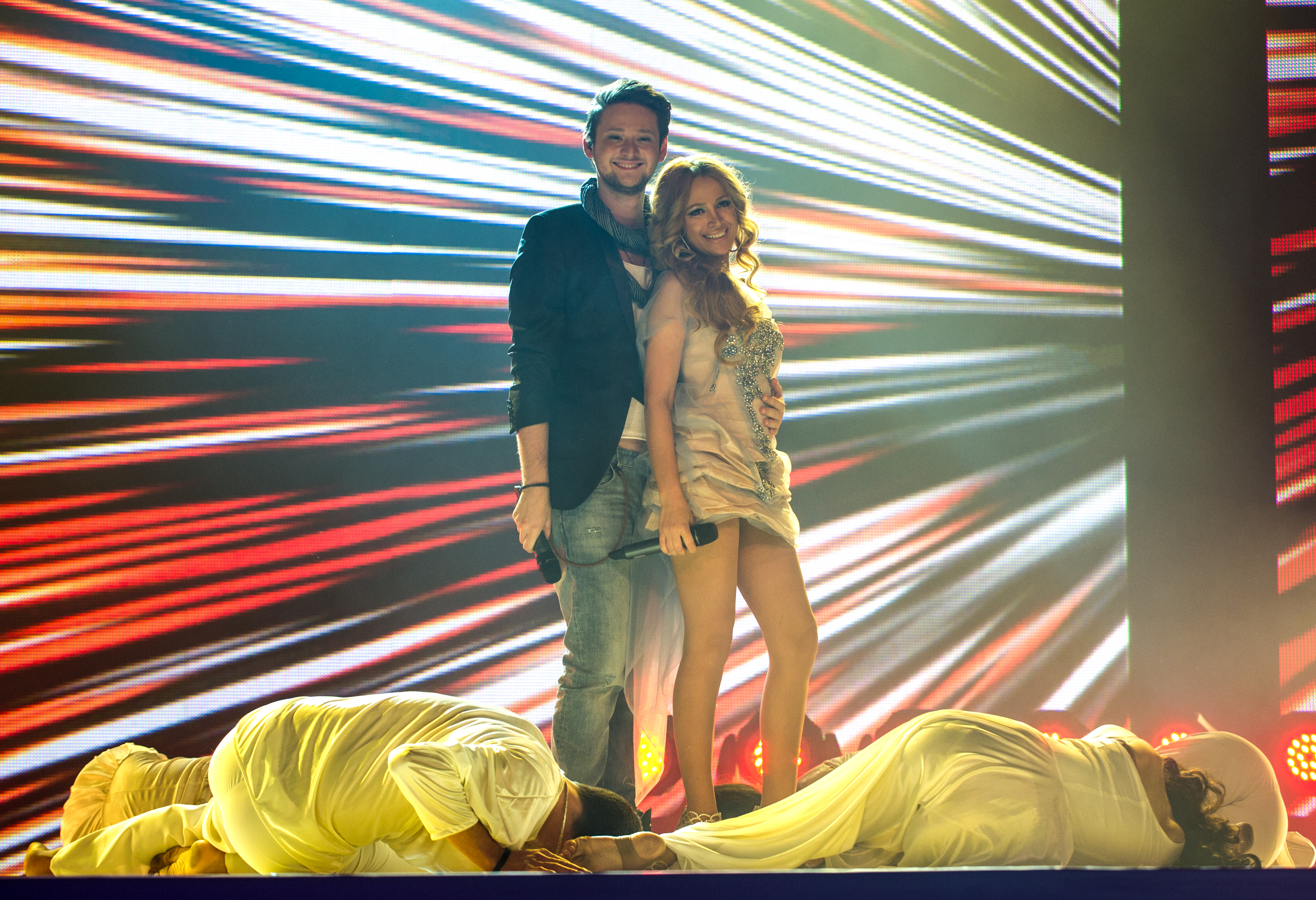 El and Nikki